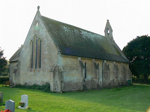 Christ Church, Broad Town This is a small unassuming church dating from the 19th century. It was locked so I couldn't take any interior shots. I try hard to emulate the premier church snapper on Geograph but I can't stop the tendency always to write a description.